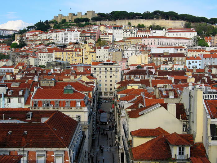 overview of downtown Lisbon towards Castelo Sao Jorge.